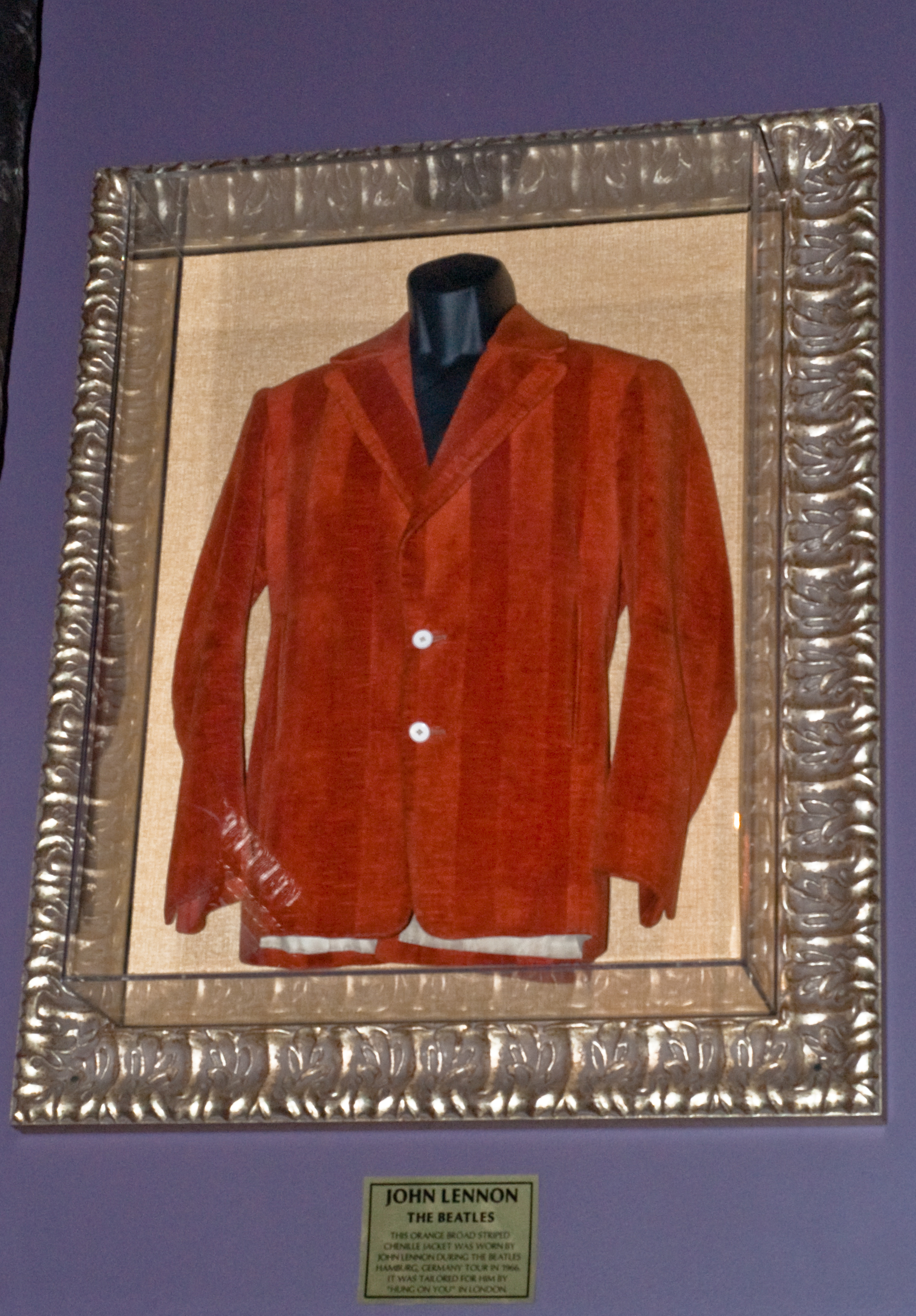 The Jacket's Alright, John but... Jacket worn by Lennon, Hard Rock Cafe, Warsaw. John Lennon The Beatles This orange broad striped Chenille Jacket was worn by John Lennon during the Beatles Hamburg, Germany Tour in 1966. It was tailored for him by "Hung On You" in London.